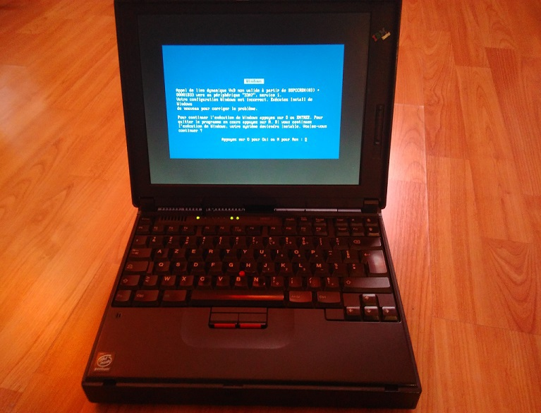 IBM ThinkPad 380ED